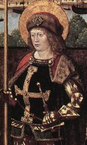 Saint Gereon detail of painting "Saints Anne, Christopher, Gereon, and Peter,"